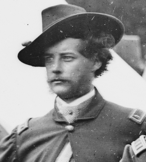 First Lieutenant W. Neil Dennison, of Battery A, 2nd U.S. Artillery.